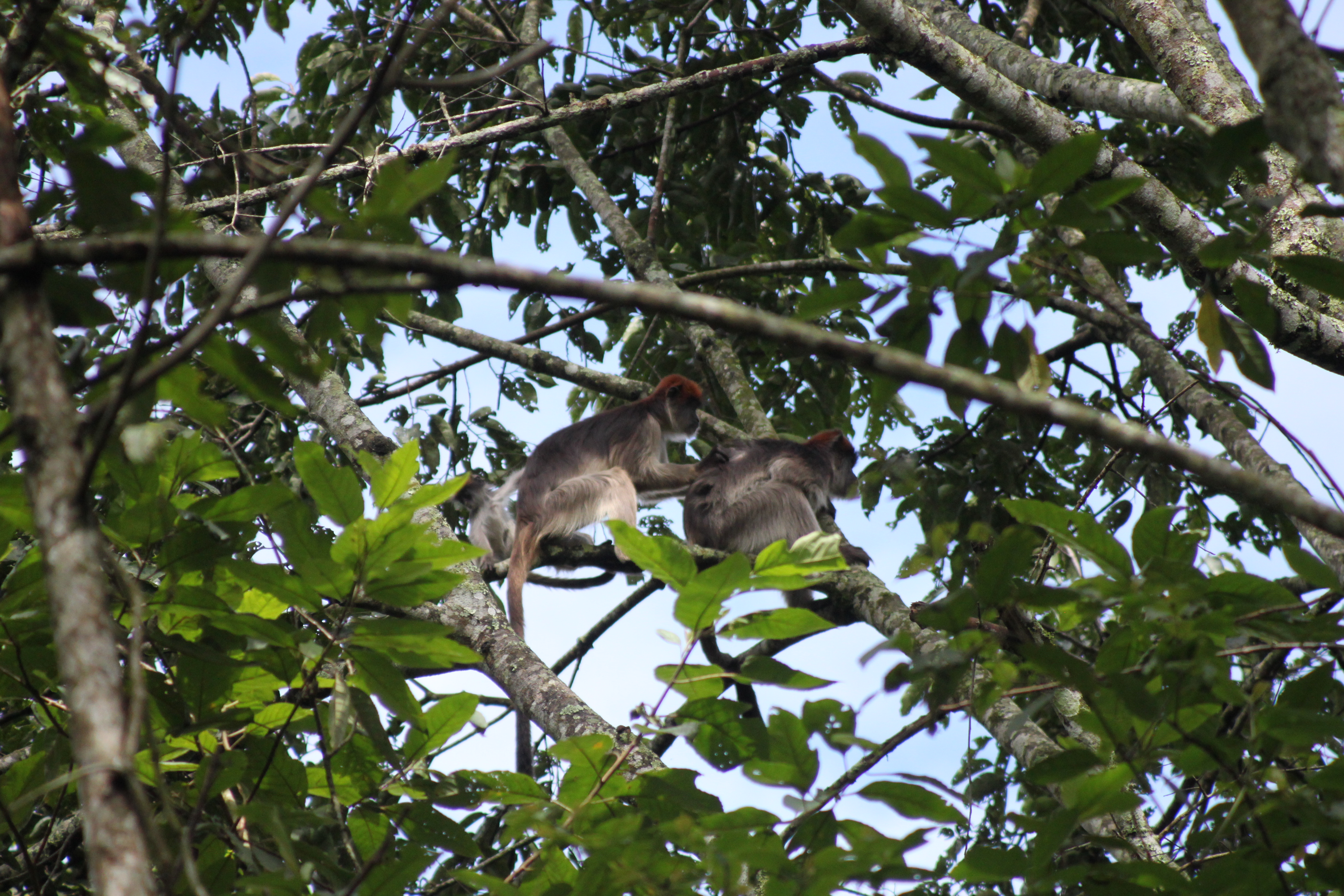 A Ugandan red colobus grooming the back of another Ugandan red colobus